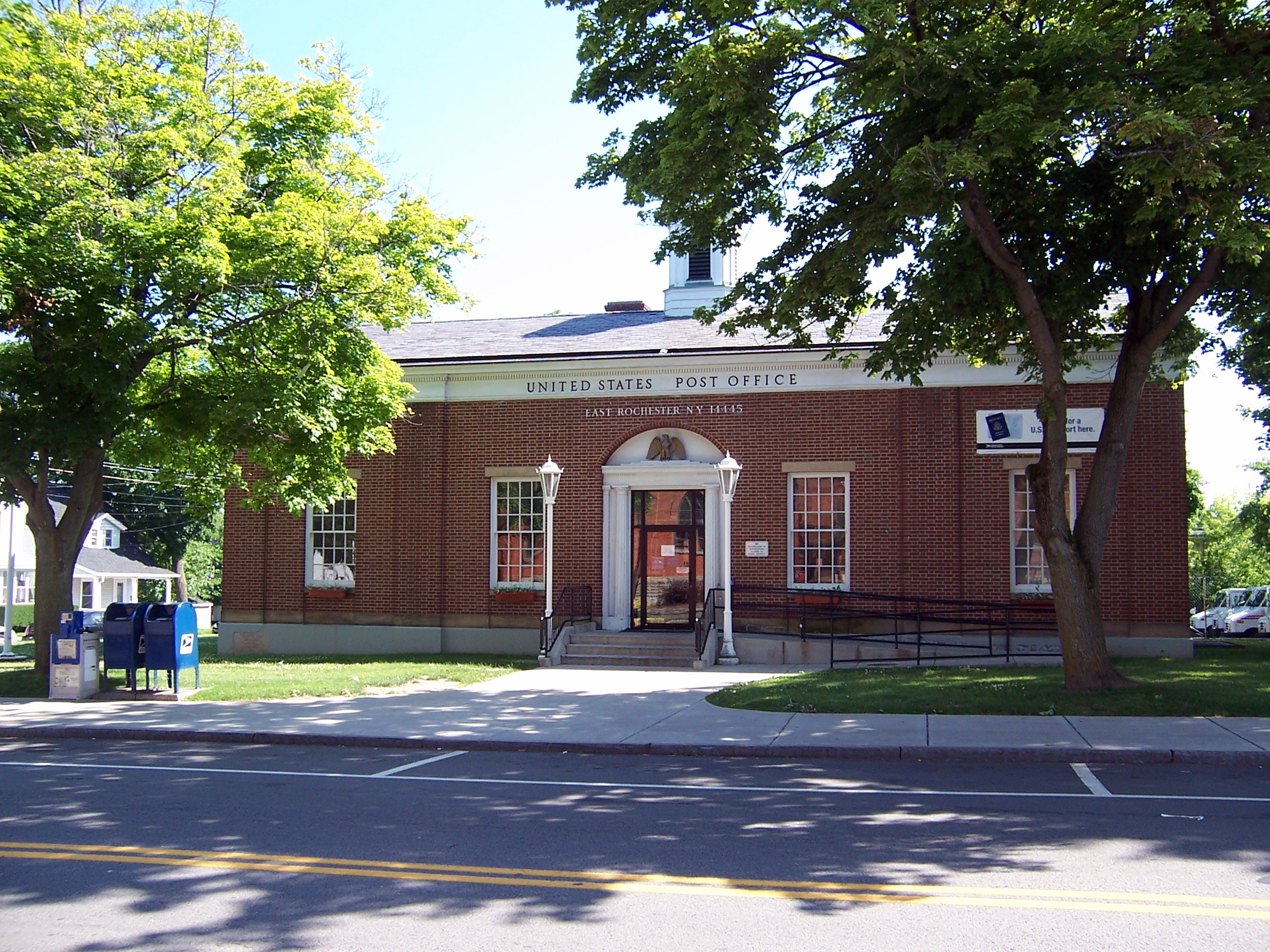 The U.S. Post Office in East Rochester. It is listed on the National Register of Historic Places.